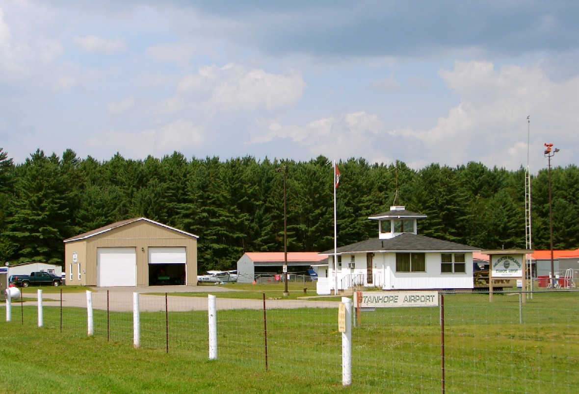 Stanhope/Haliburton Airport, Ontario, Canada